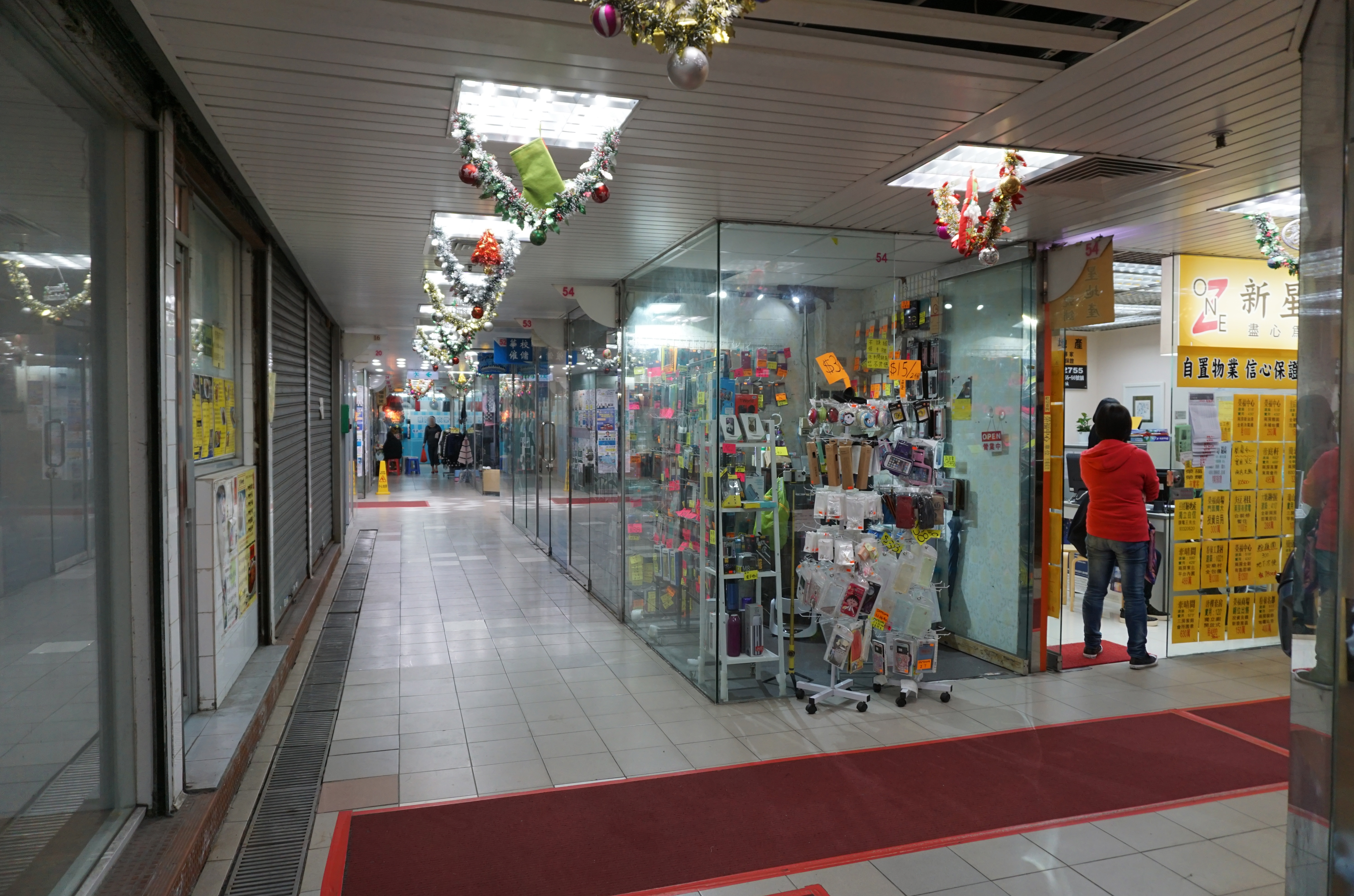 Wing Fok Shopping Centre in Luen Wo Hui, Hong Kong.